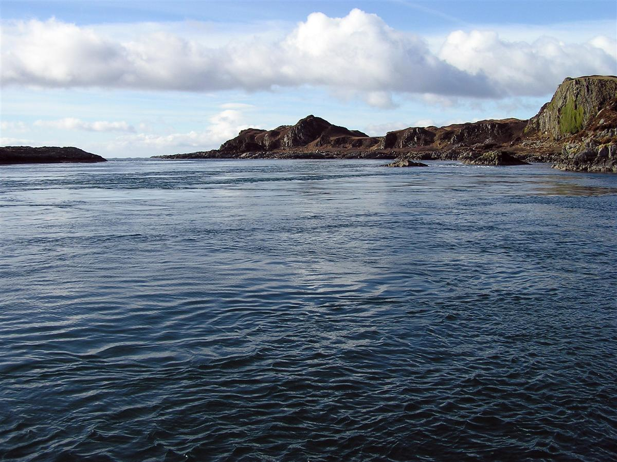 Garvellachs, firth of Lorne, Argyll and Bute, Scotland